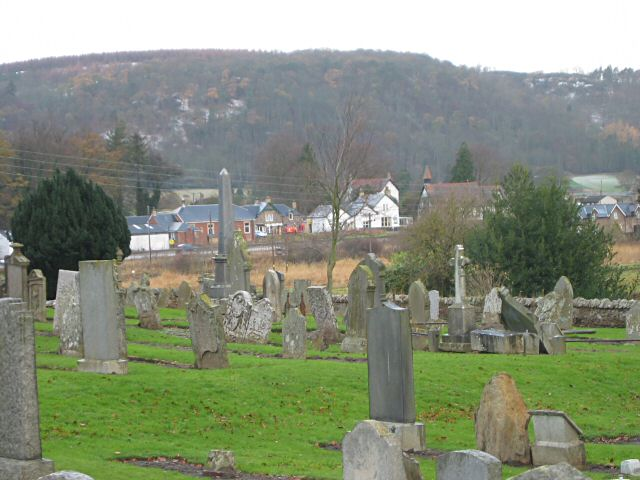 St Madoes